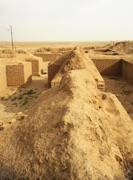 Shown here are the remains of the Nabu Temple in the ancient city of Calah, now known as Nimrud, Iraq, Nov. 19, 2008. The United Nations Educational, Scientific and Cultural Organization (UNESCO) is considering protecting Nimrud as a World Heritage site.